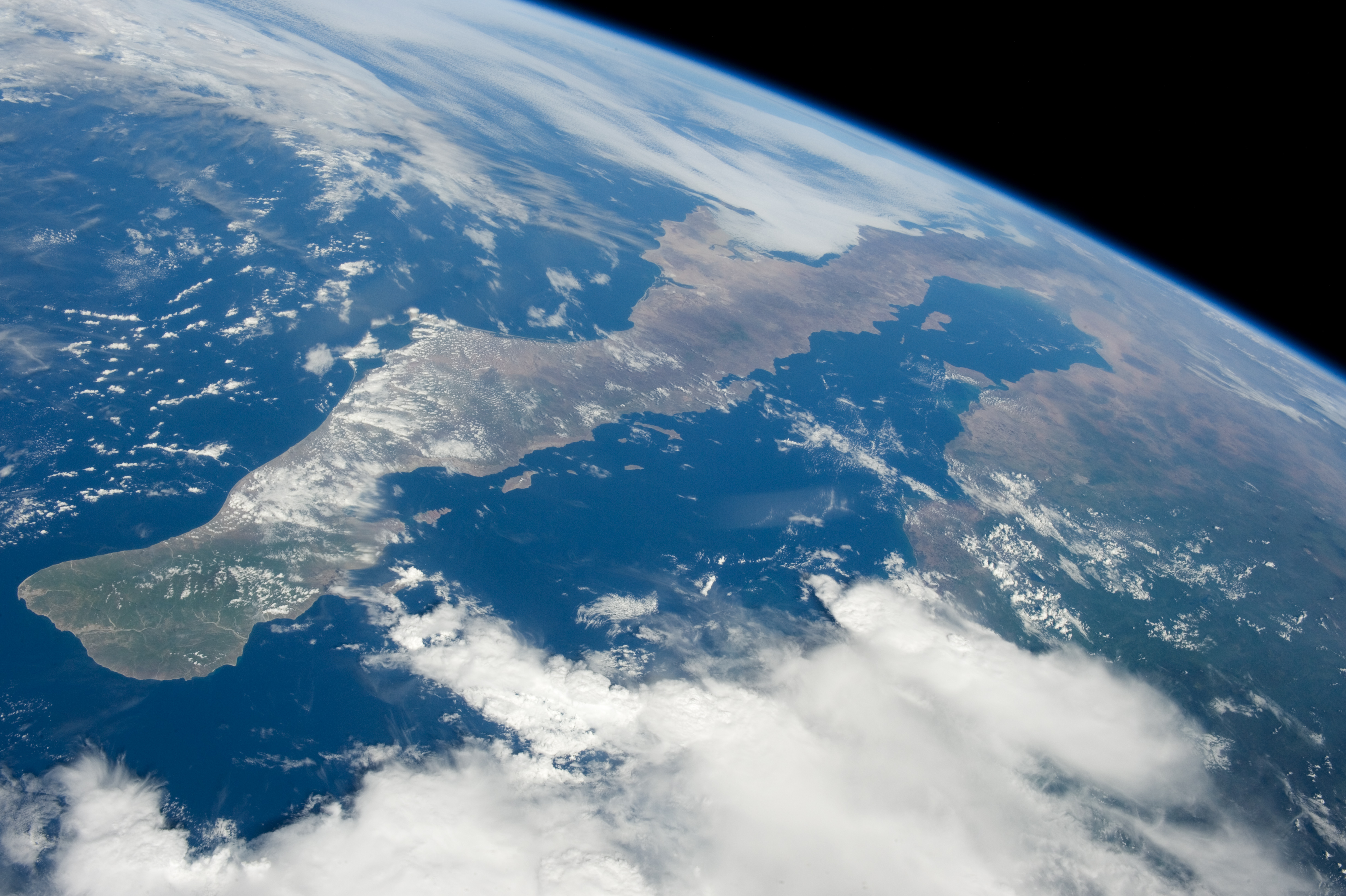 The SpaceX Dragon splashed down on time off the Pacific coast of Baja Calfornia completing its ninth cargo mission. This photograph of Baja California and the Mexican coastline was taken Aug. 22, 2016 from the International Space Station.